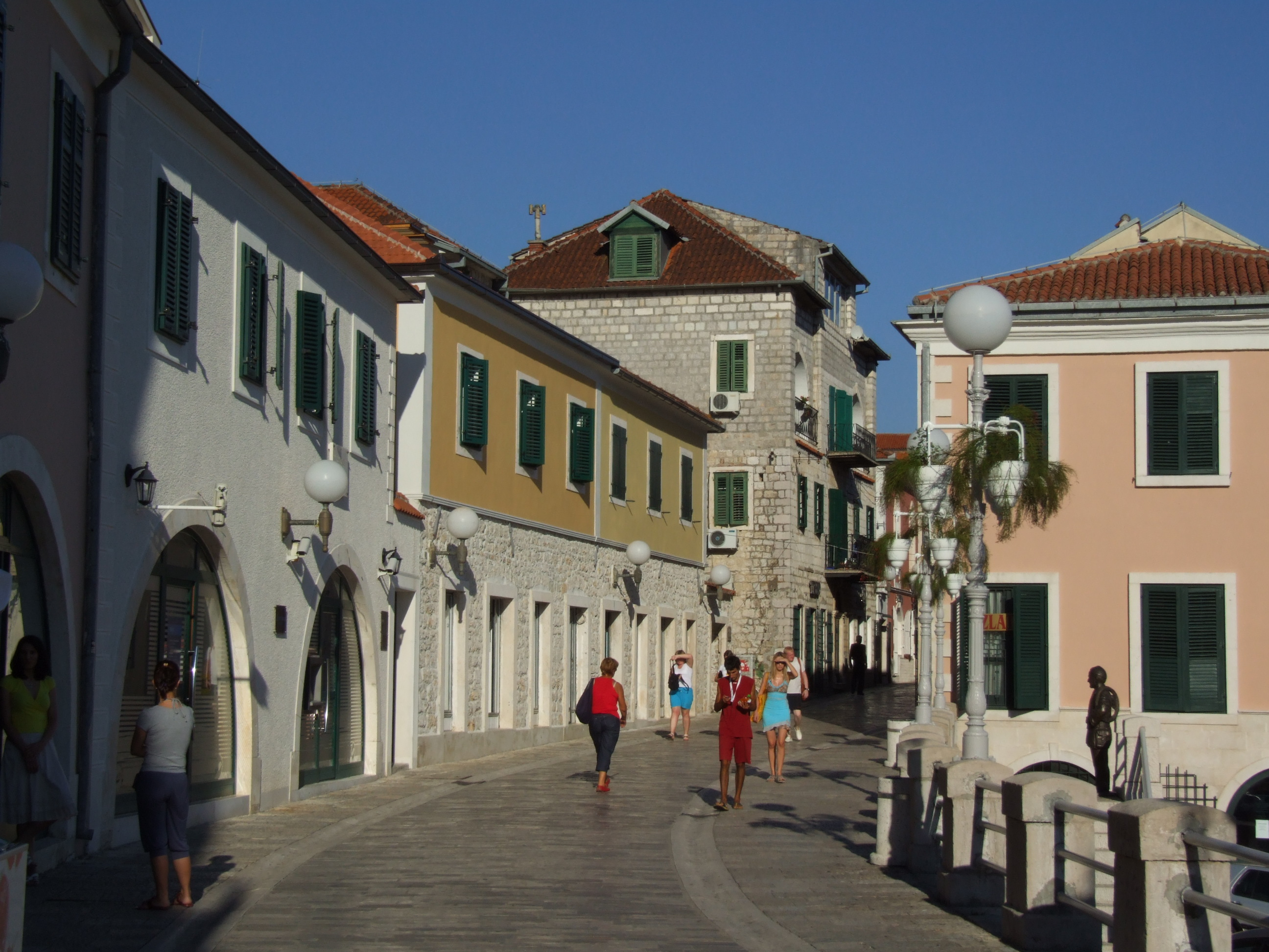 Herceg Novi, Montenegro - old city